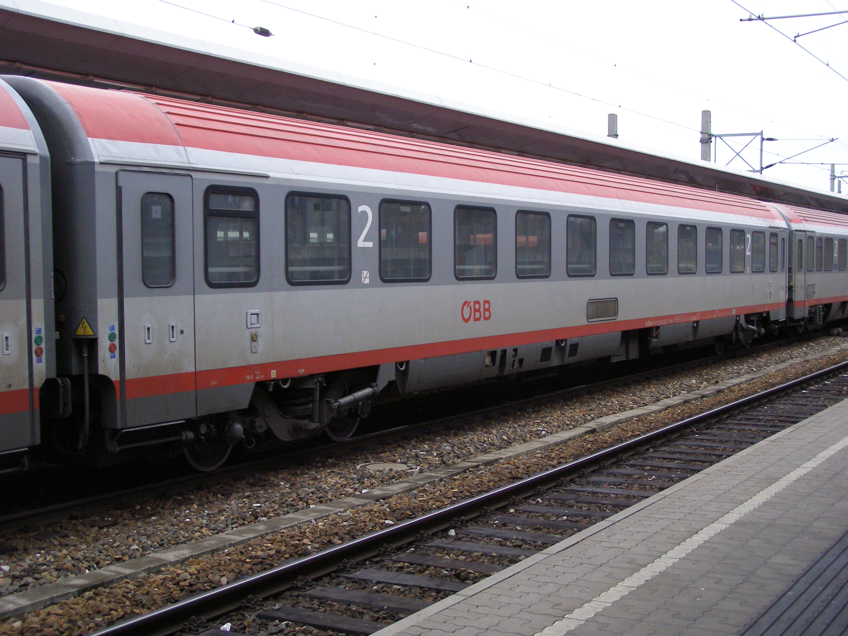 Vienna - Bmz 61 81 21-91 003- coach in IC 557 train to Graz on Wien Meidling station